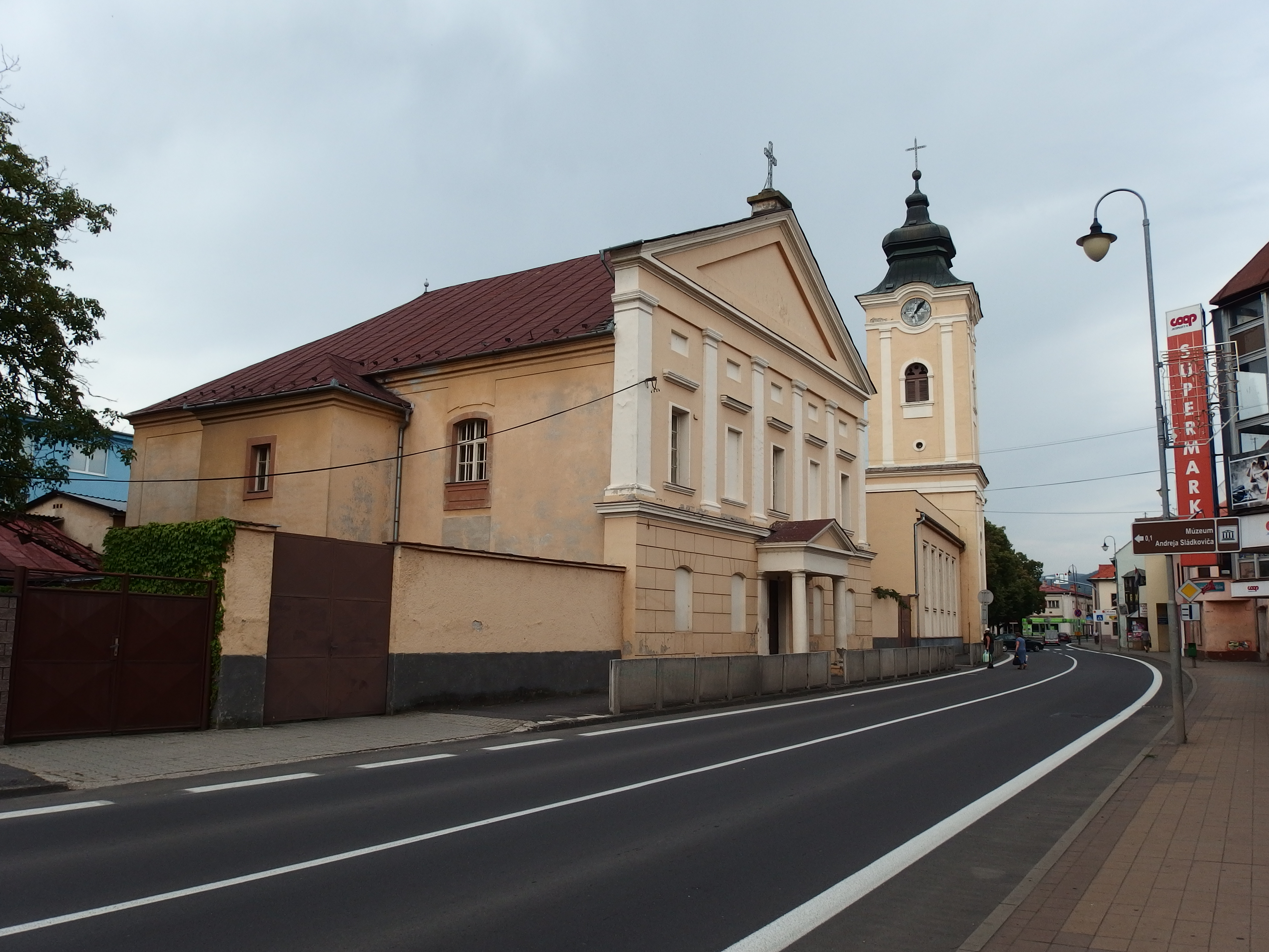 Krupina, Slovakia.